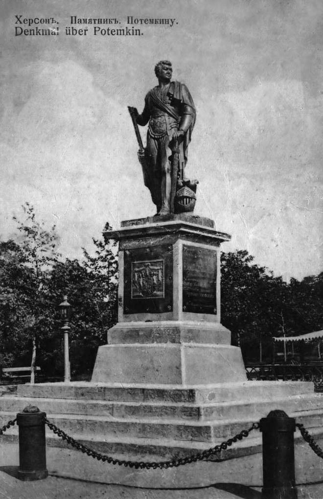 Monument of Potyomkin in Herson Flickr data on 2011-08-13 Tags: Russian Empire, pre-1917, Old Russia, Monument, Potyomkin, Herson License: CC BY-SA 2.0 User: paukrus Ruslan